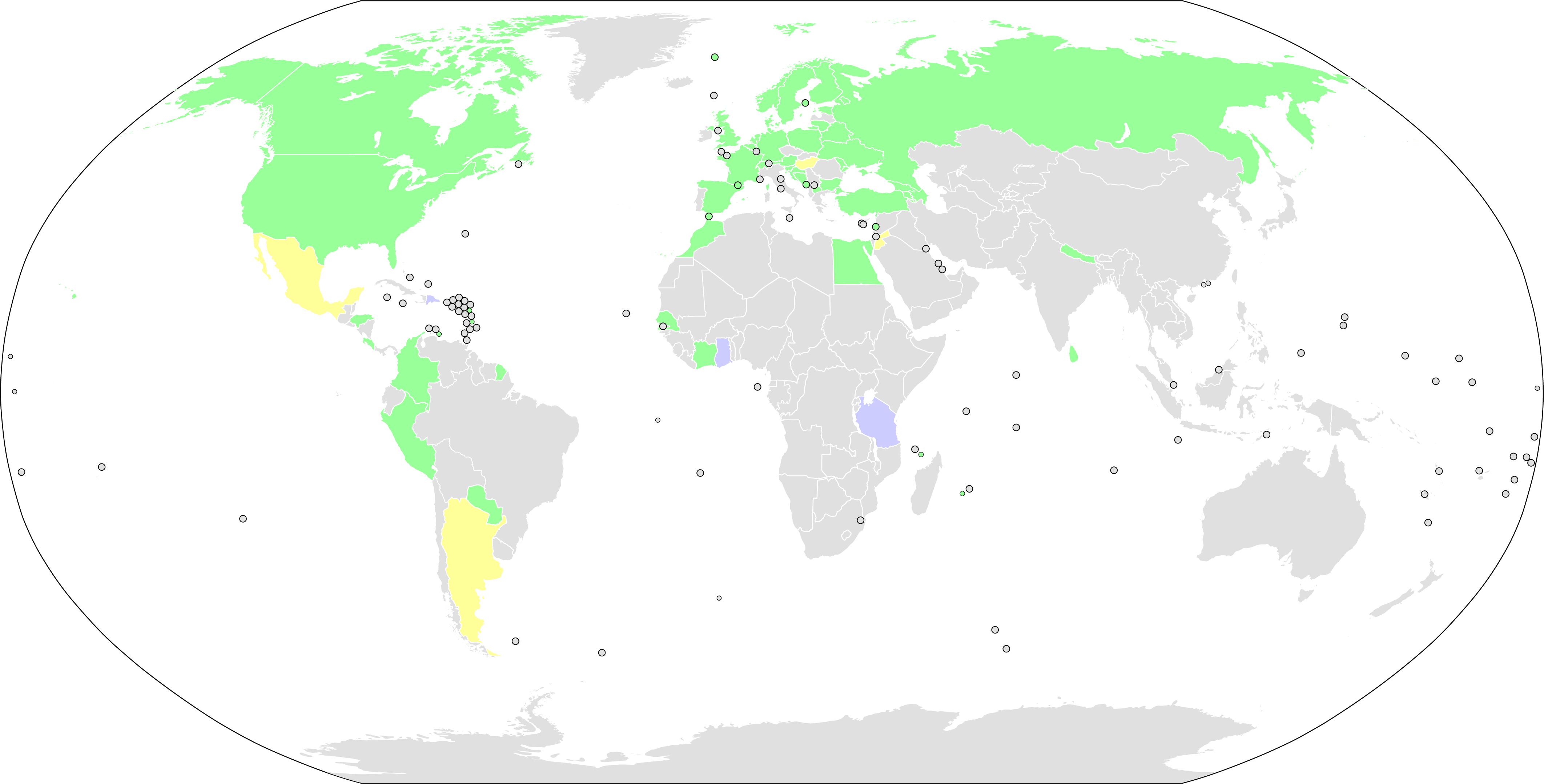 English (en): Map of member organizations affiliated with International Federation of Liberal Youth Membership tiers Full member Candidate member Observing member